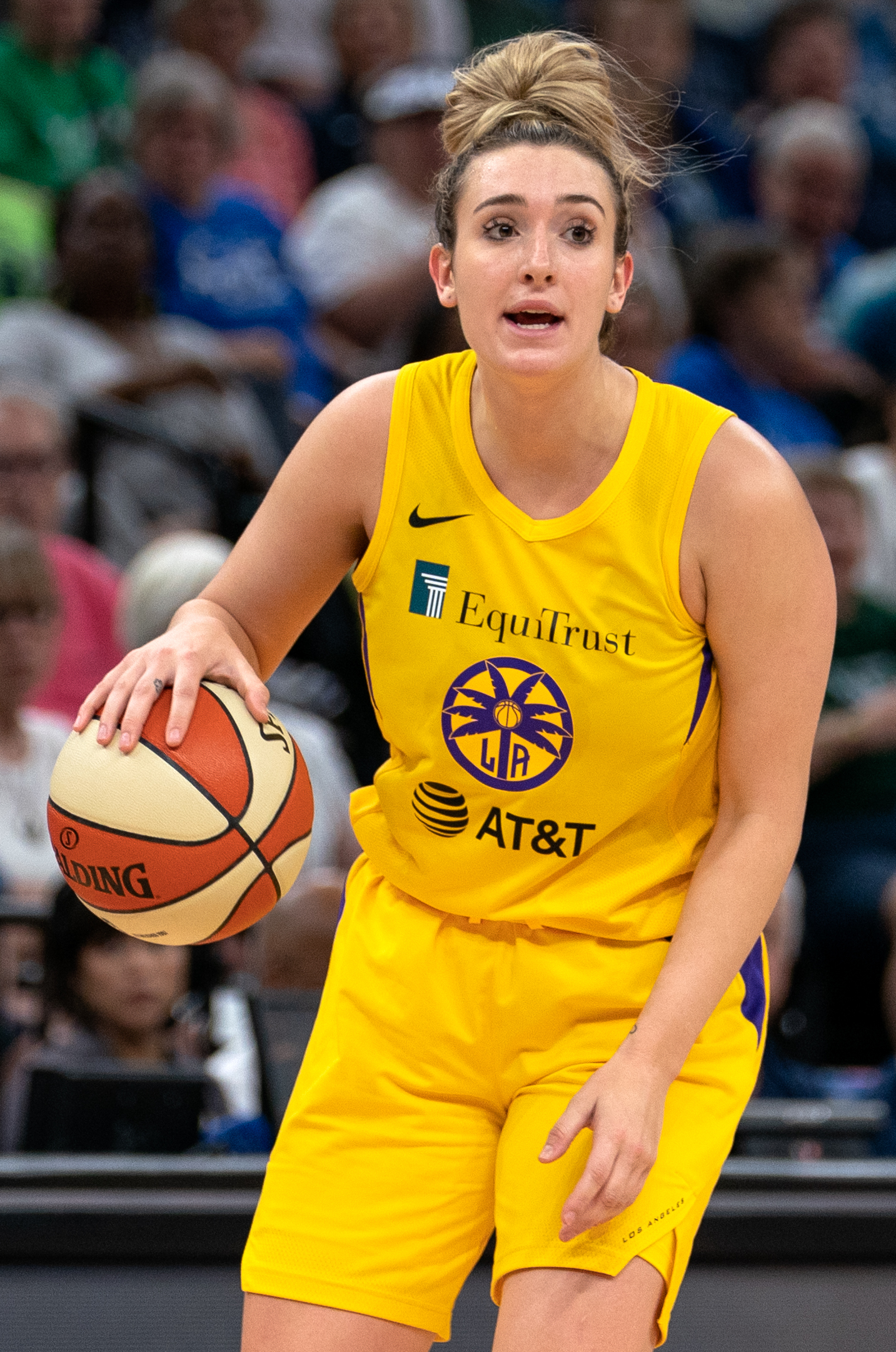 Los Angeles player Marina Mabrey in a game against the Minnesota Lynx